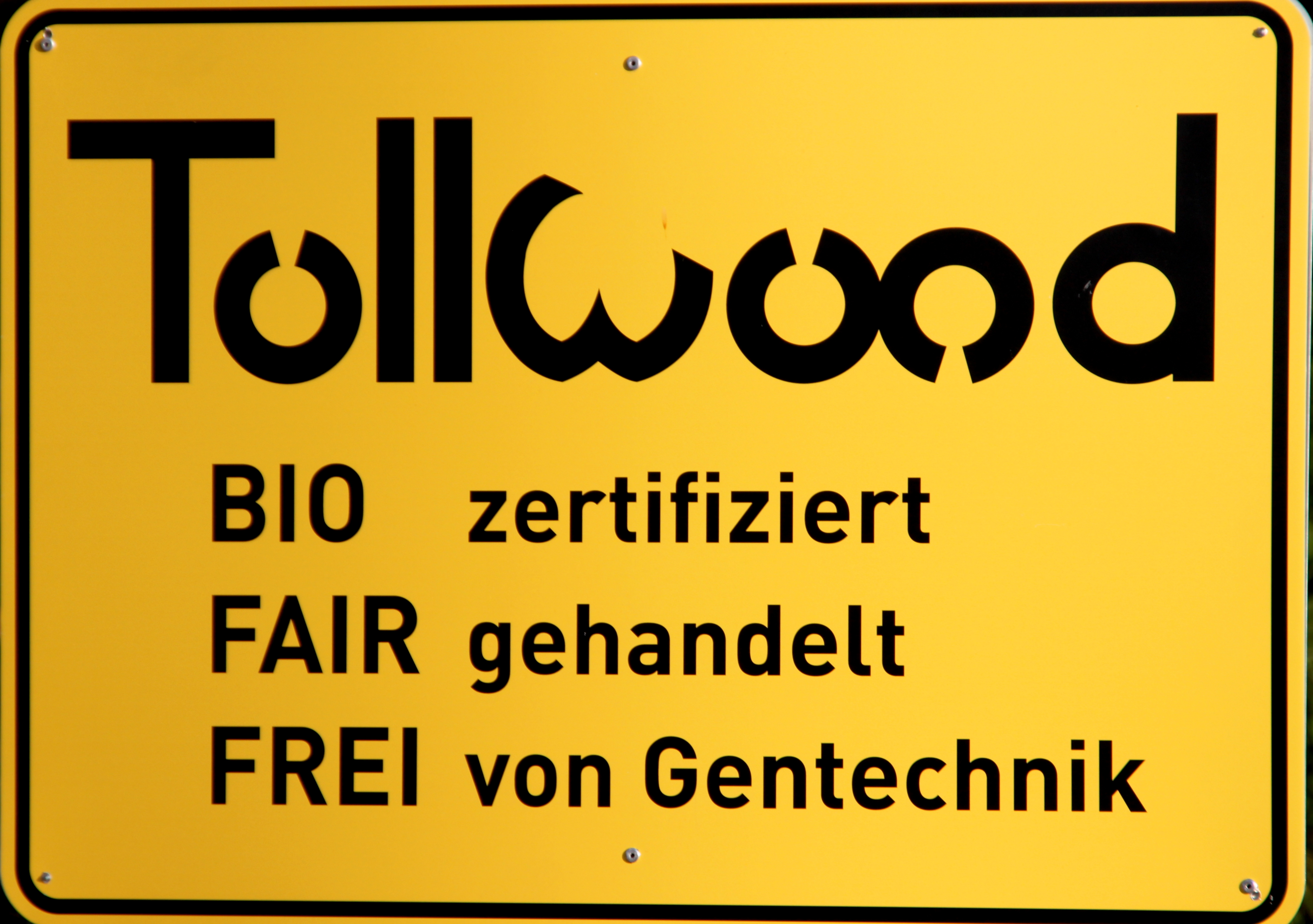 Tollwood Sammer Festival 2009